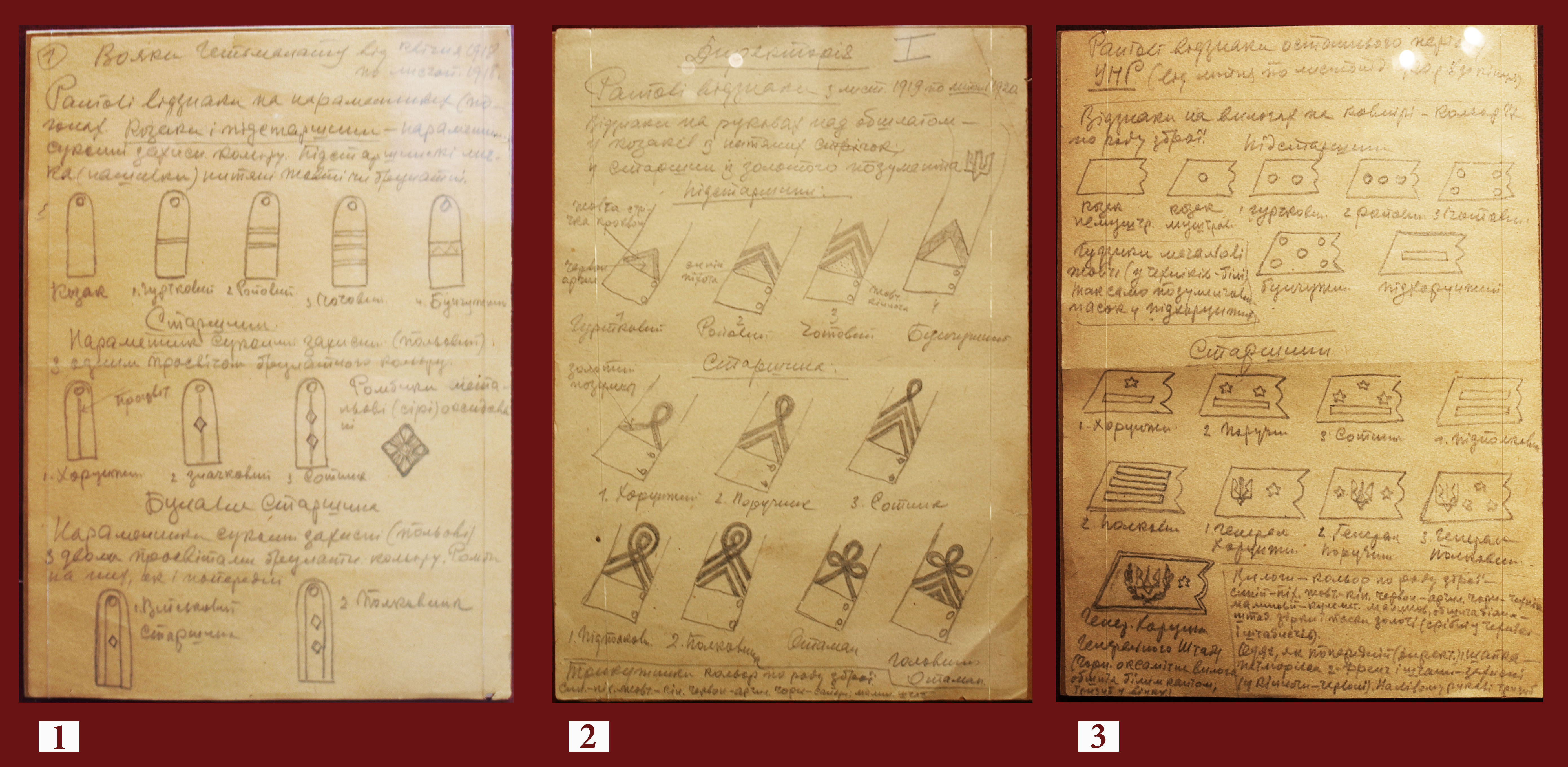 Ukrainian military rank (esquisse) 1) 1918 2) 1919-1920 3) 1920